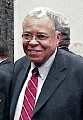 Picture of James Earl Jones from